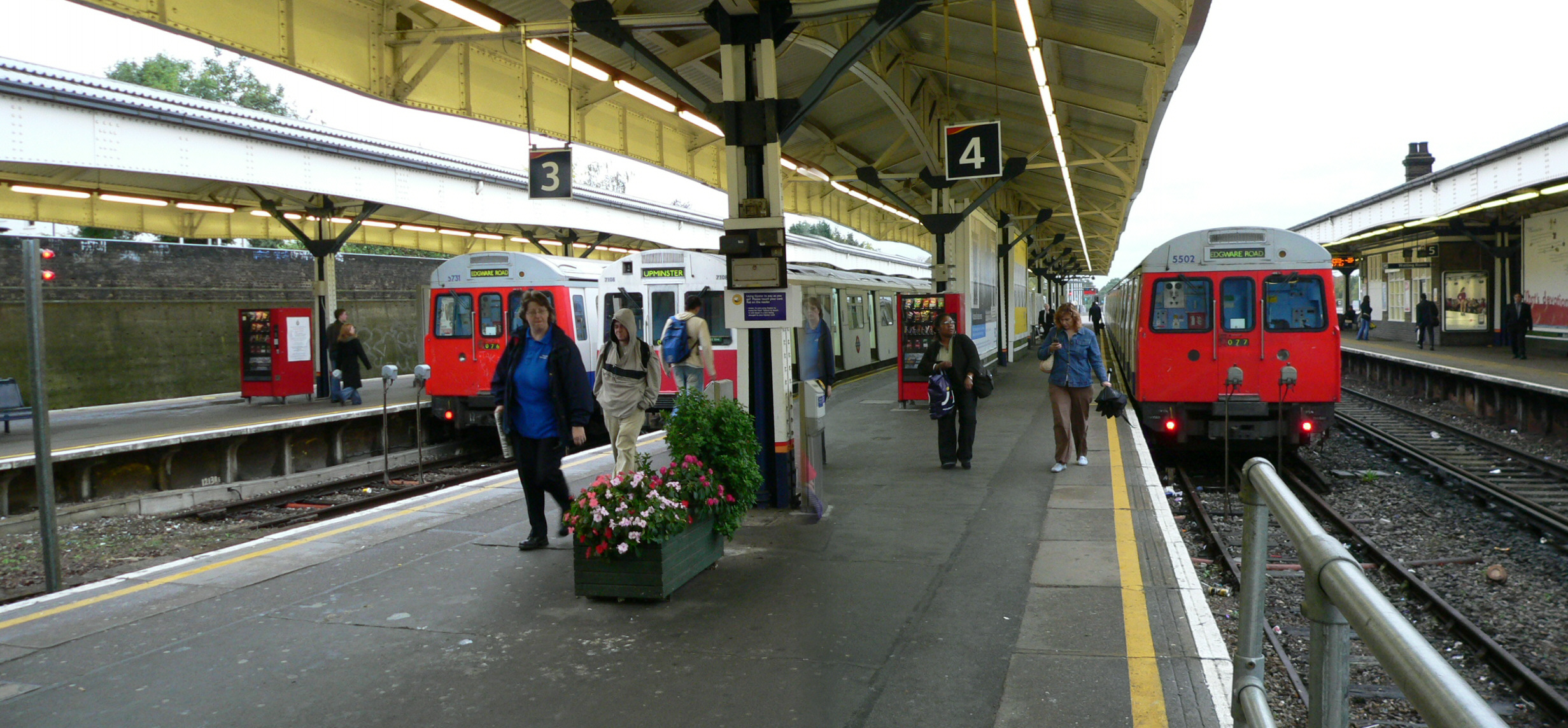 The London Underground District Line platforms (1-4) at Wimbledon station in south London on 24 October 2005. The trains at platforms 2 and 4 are C stock trains that run "Wibleware" Wimbledon to Edgware Road services. The train in platform 3 is an unrefurbished D stock train that typically provide services to Upminster station from Wimbledon.